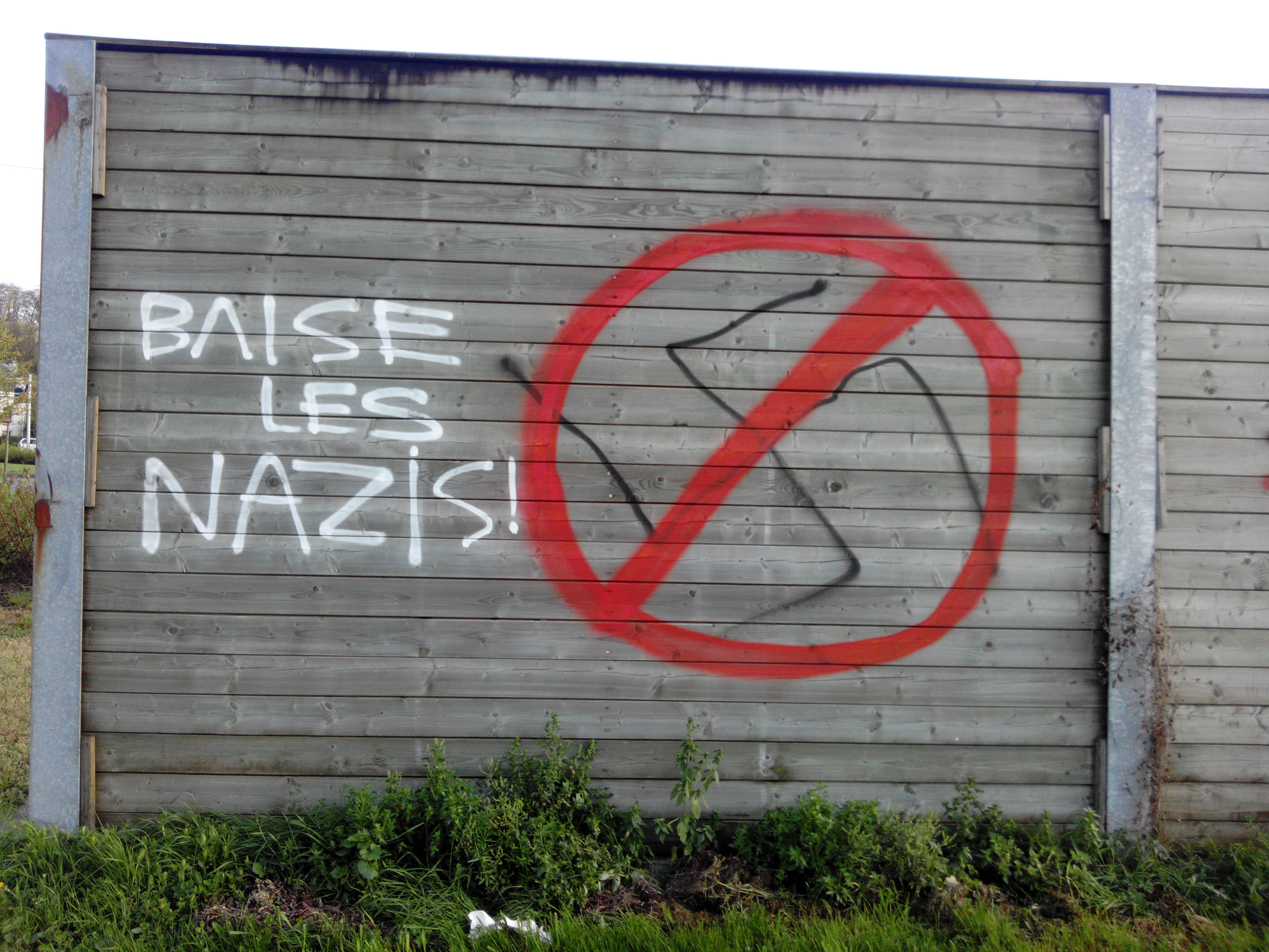 Wooden noise barriers with tags at Châtelet, Belgium. Dialog between neonazis and antifascists. A hakenkreuz was first tagged on the wall, with other symbols like ACAB. Then, an antifascist edit to the tag has been done to strike the straviska and add a « Baise les nazis » (French for “Fuck the nazis”)